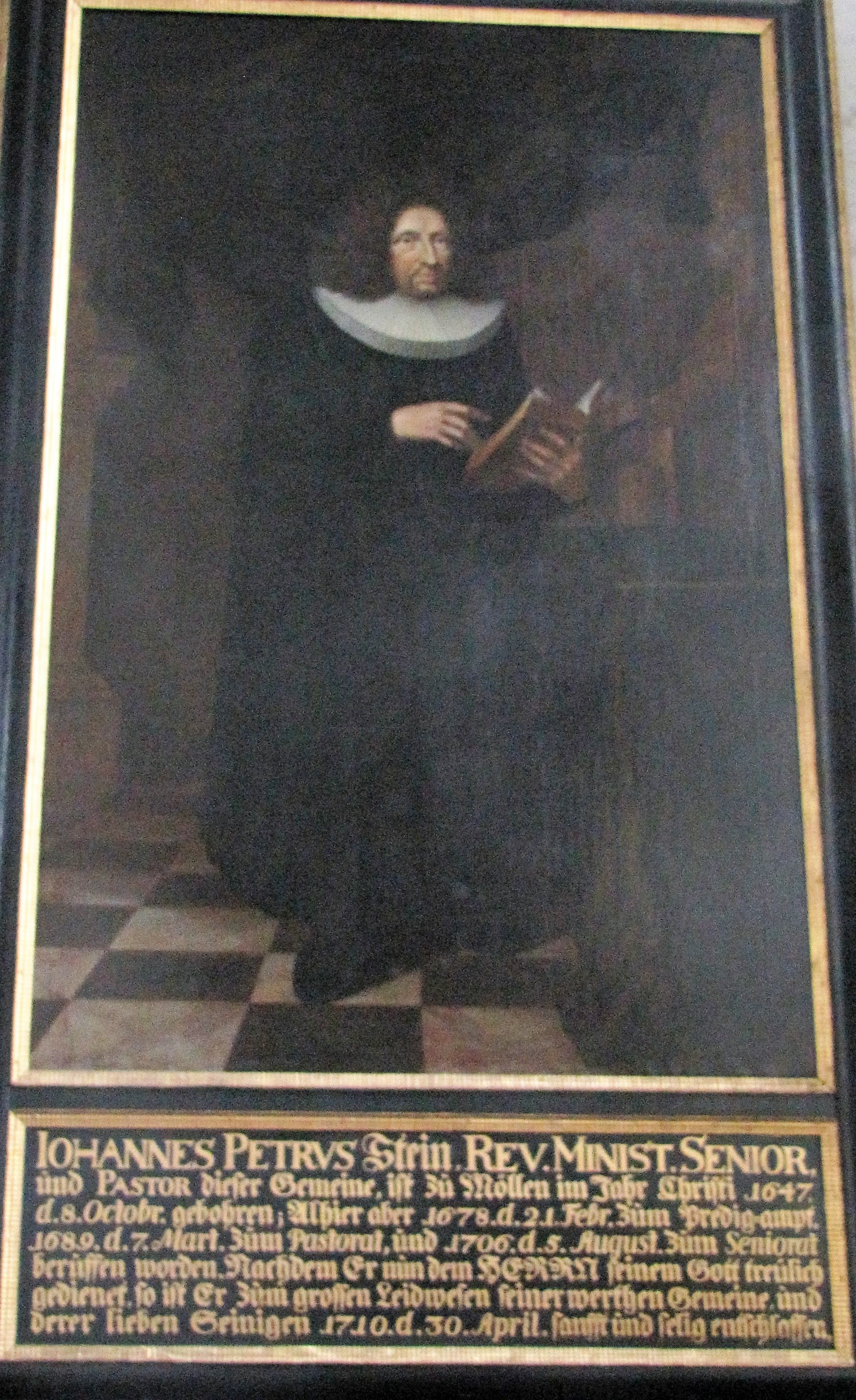 Memorial portrait of Johann peter Stein in St. Aegidien, Lübeck